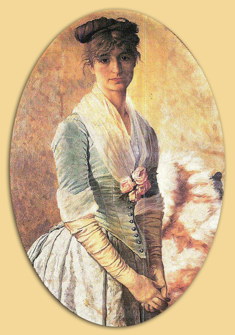 Portrait of woman (His wife Naile Hanim), Osman Hamdi Bey, oil on canvas, 98 x 68 cm.